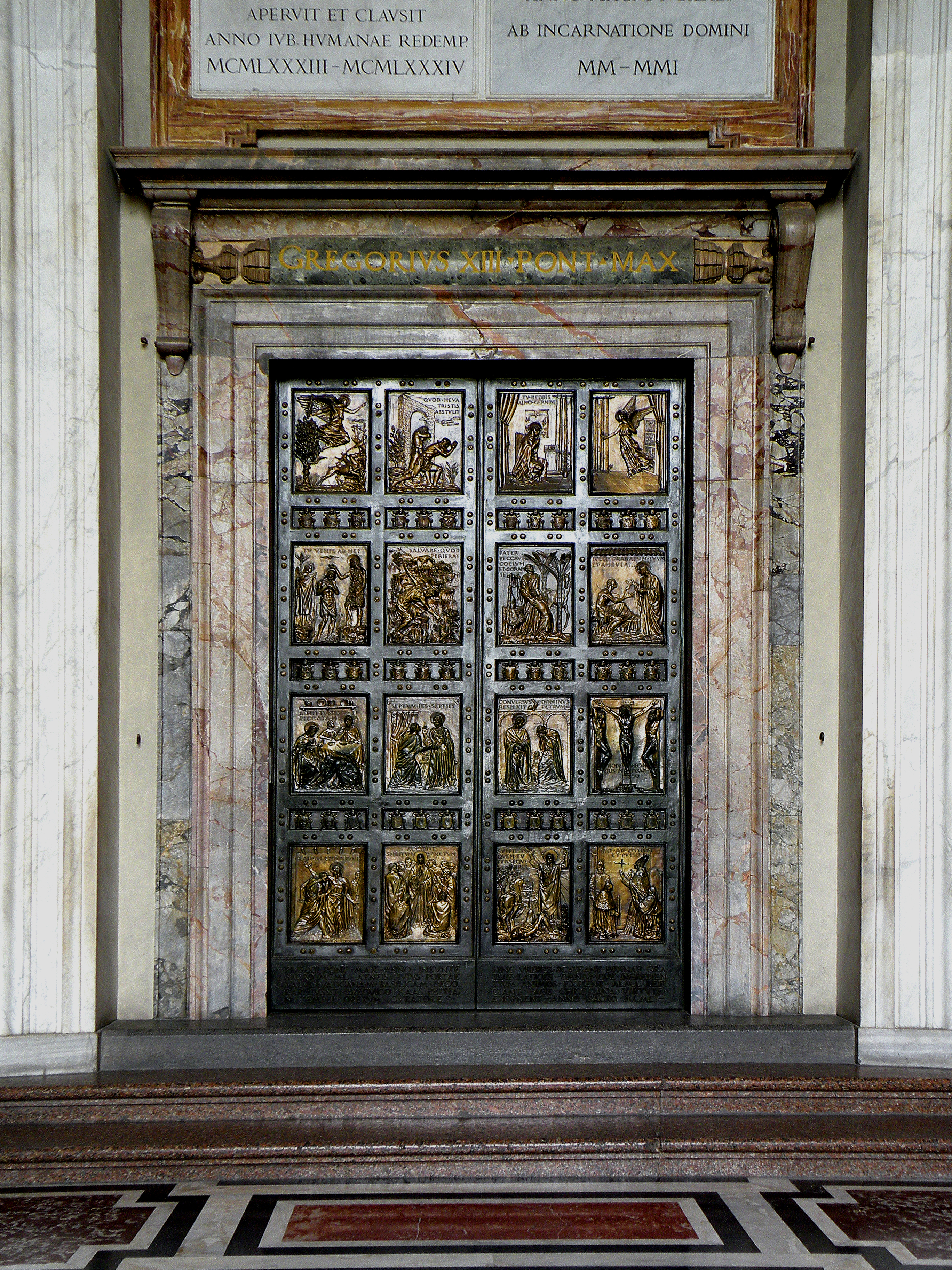 The Holy Door